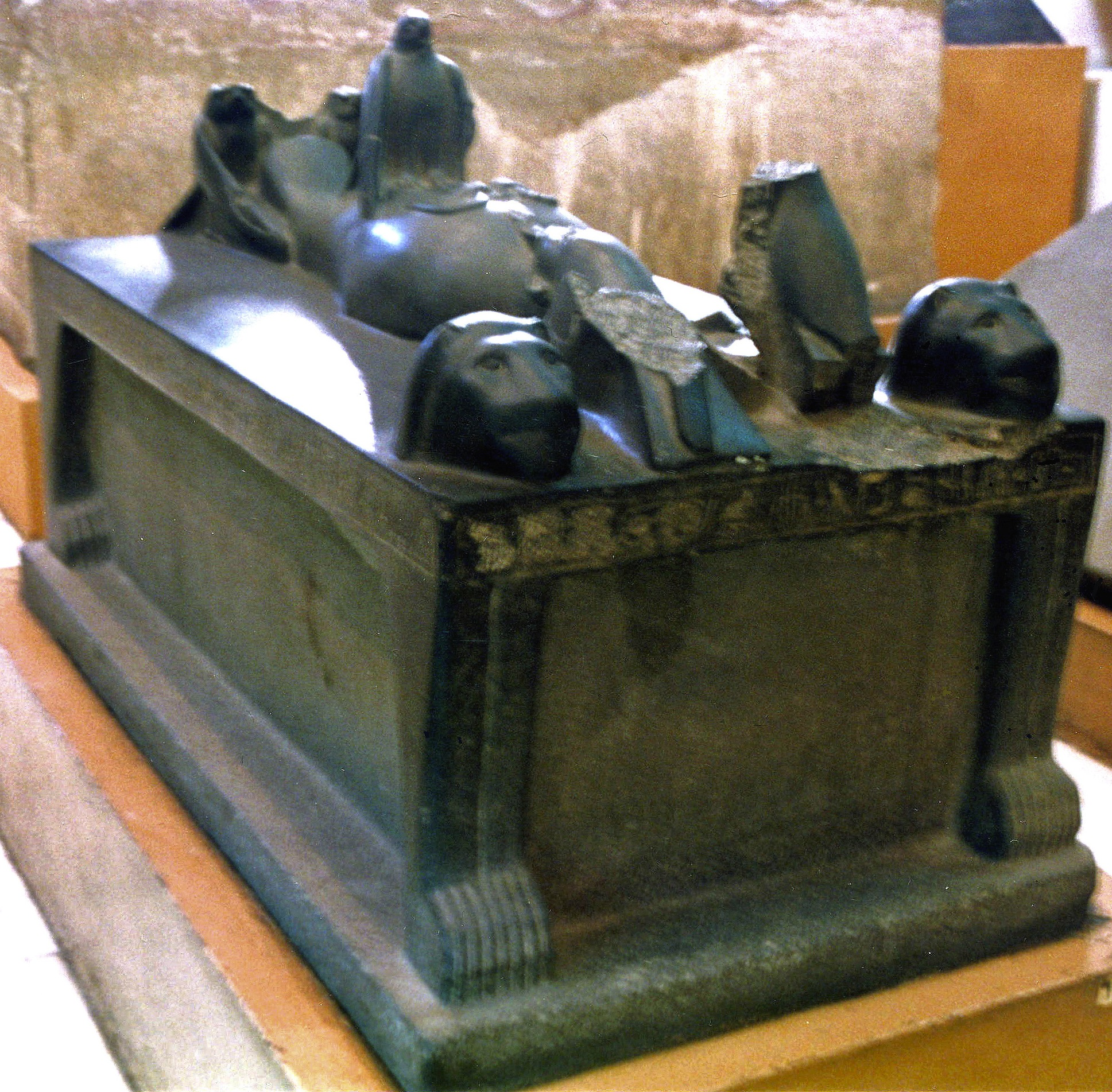 Bed of Osiris Cairo JE 32090, from the tomb of Djer and inscribed with the name of the 13th dynasty pharaoh Djedkheperew.